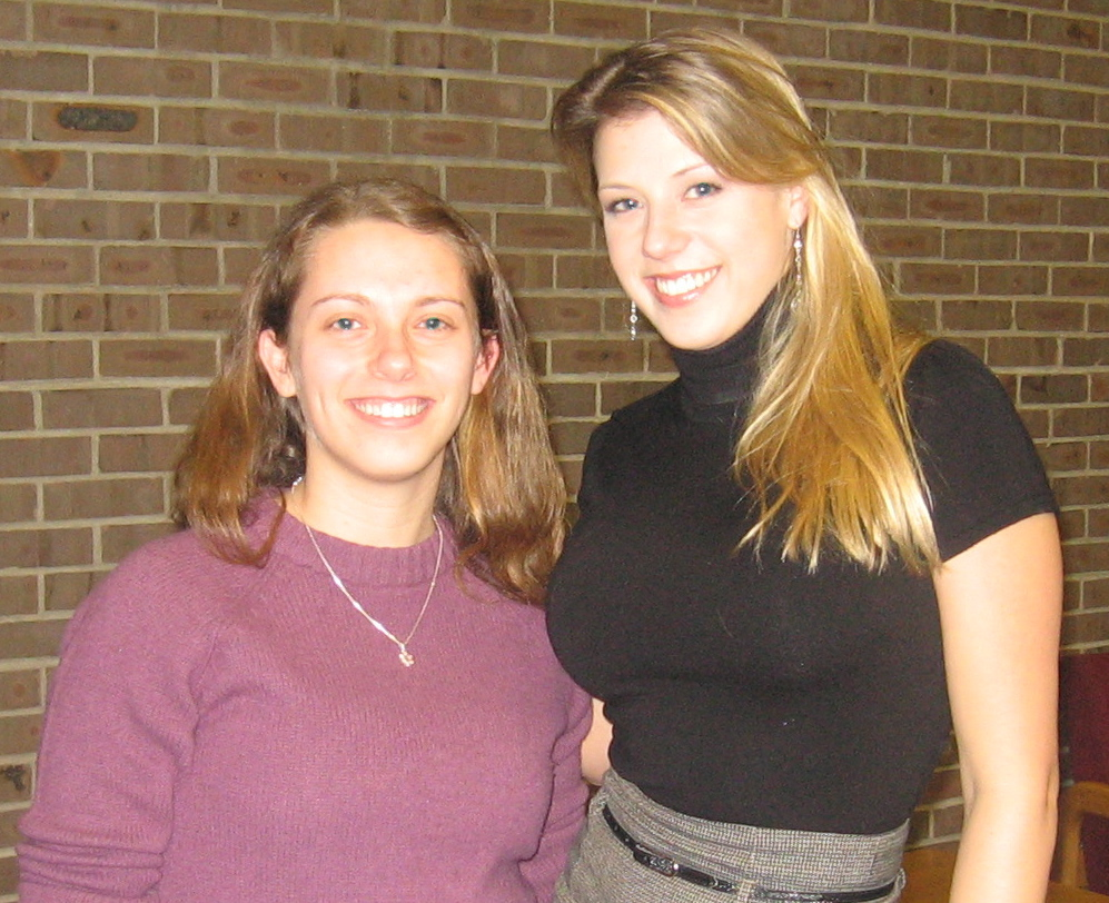 Taken March 7, 2007 at Rutgers University with Bethany S Murphy.